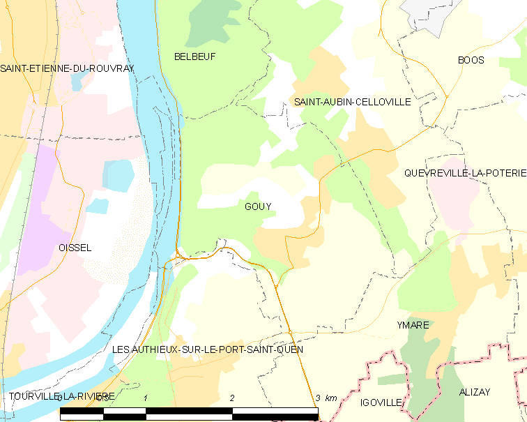 Map of French municipality Gouy